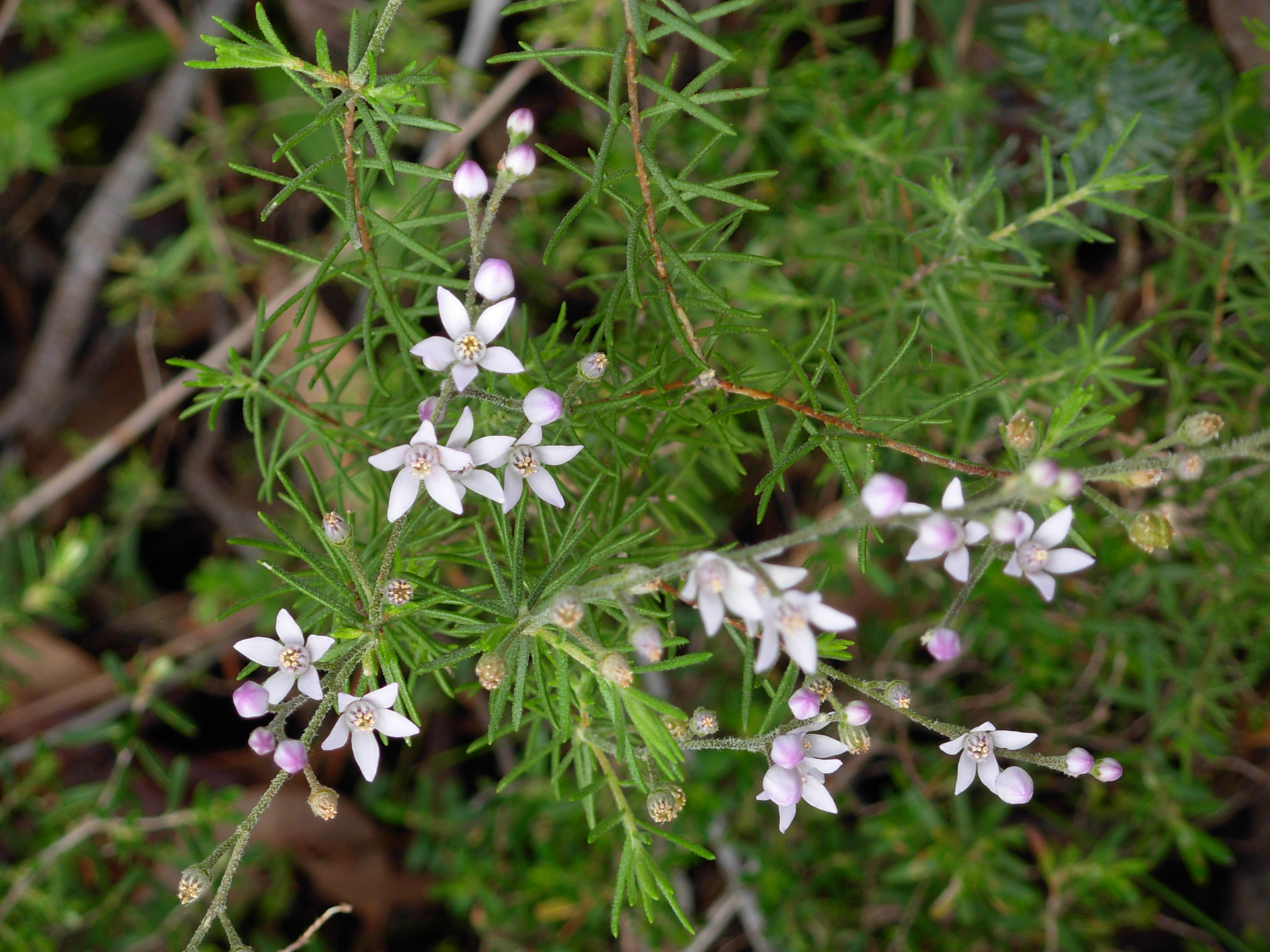 Philotheca spicata Kalamunda National Park